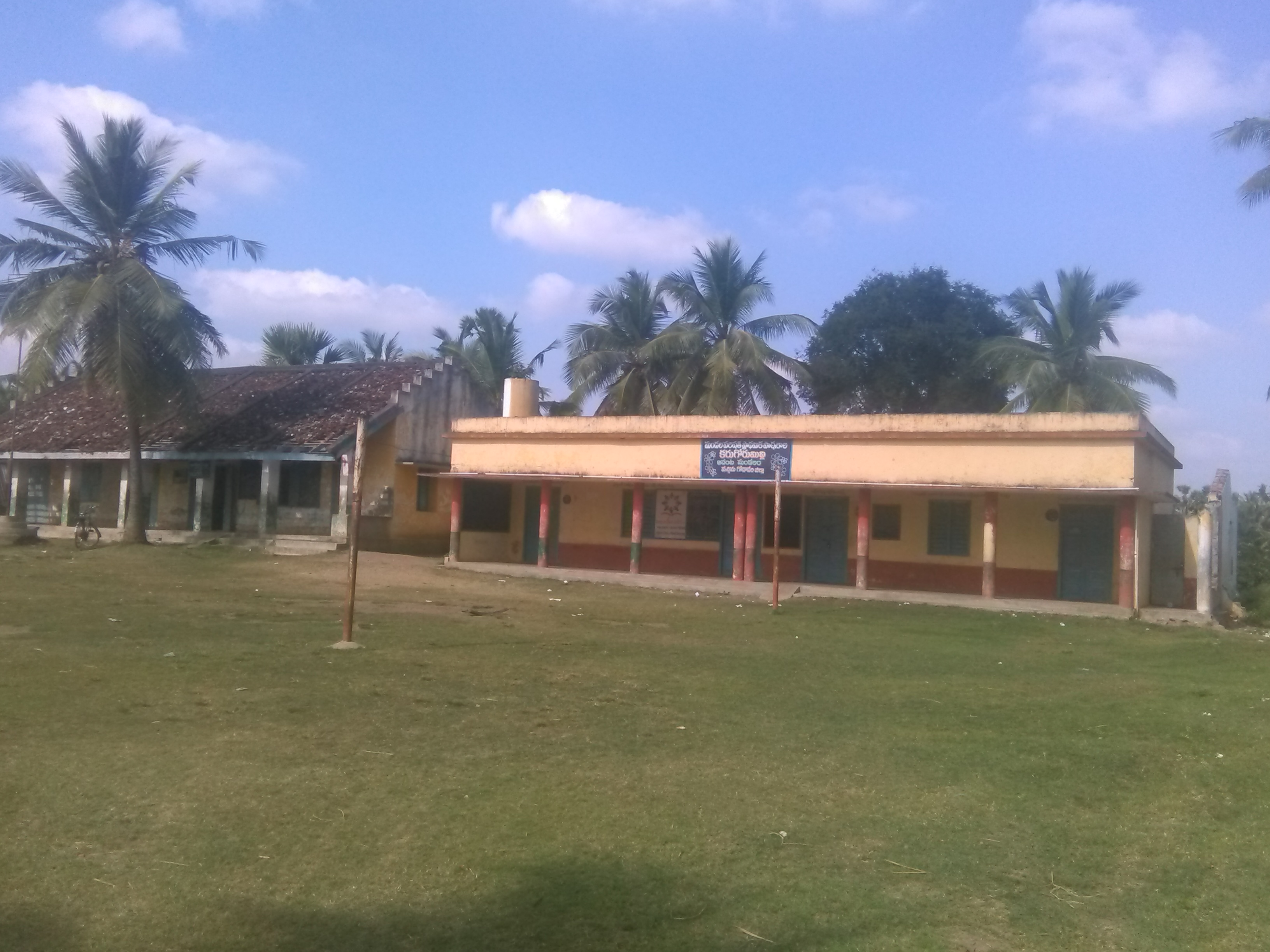 A.P. village of Karugorumilli Highschool